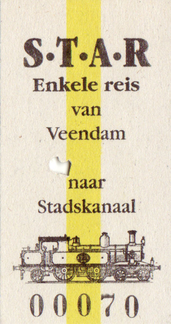 STAR trainticket, one-way, from Veendam to Stadskanaal, for adults